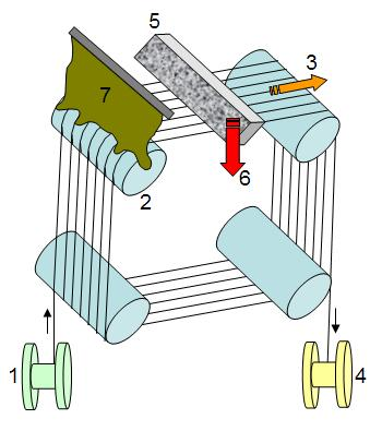 wiresaw process